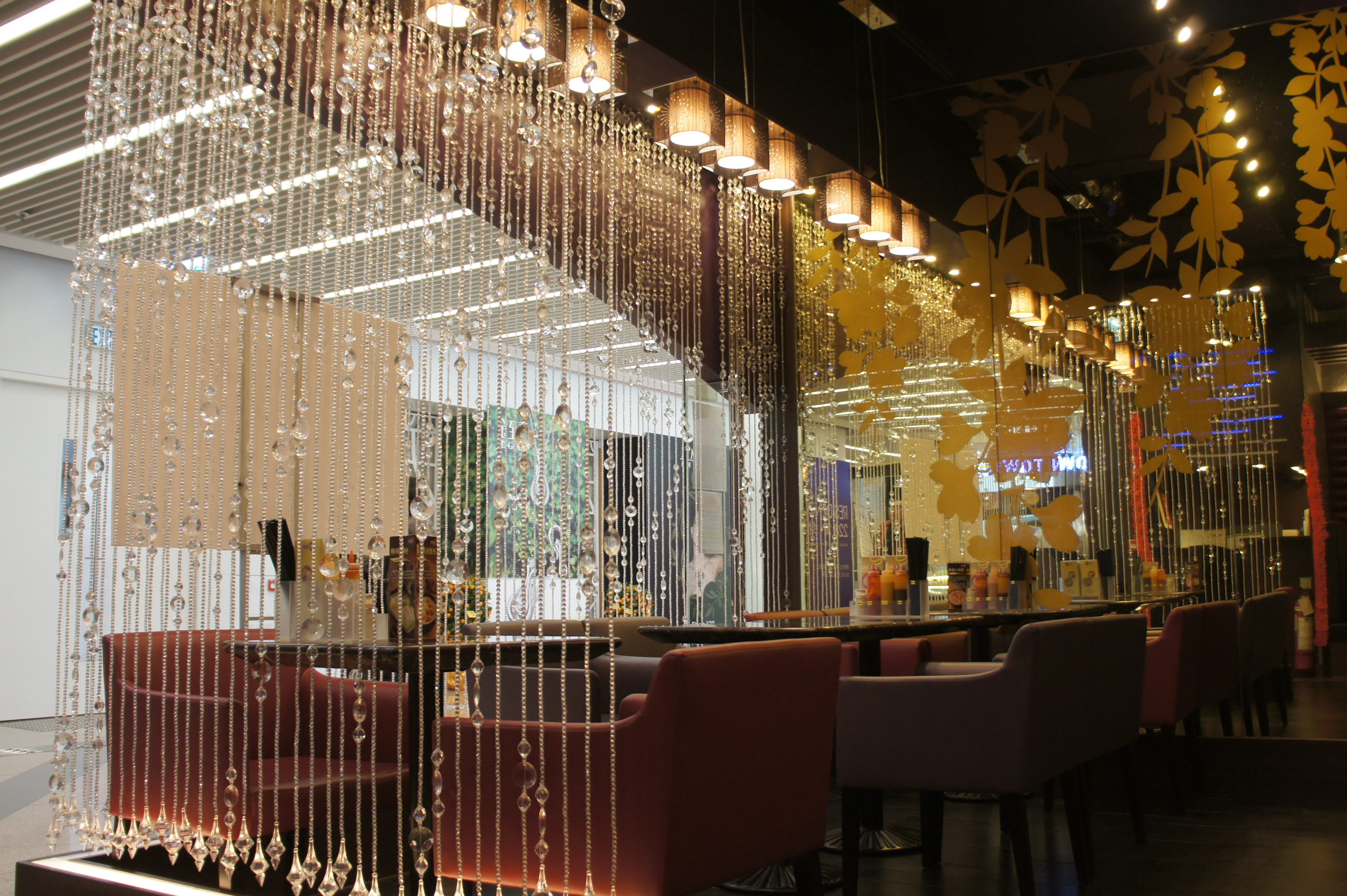 JPone (Ocean Empire Food Shop), Tsuen Wan Nina Tower branch, New Territories, Hong Kong.